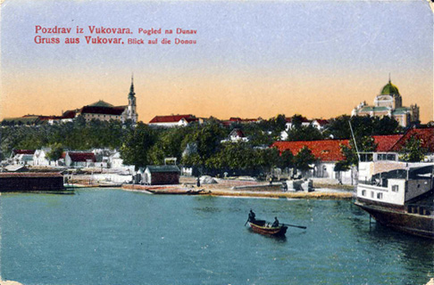 Front of postcard 5525|1, postmarked 28 January 1917: Greetings from Vukovar, View of the Danube